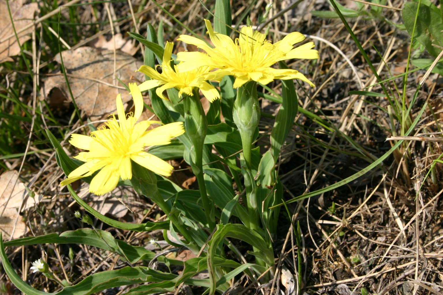 Scorzonera austriaca